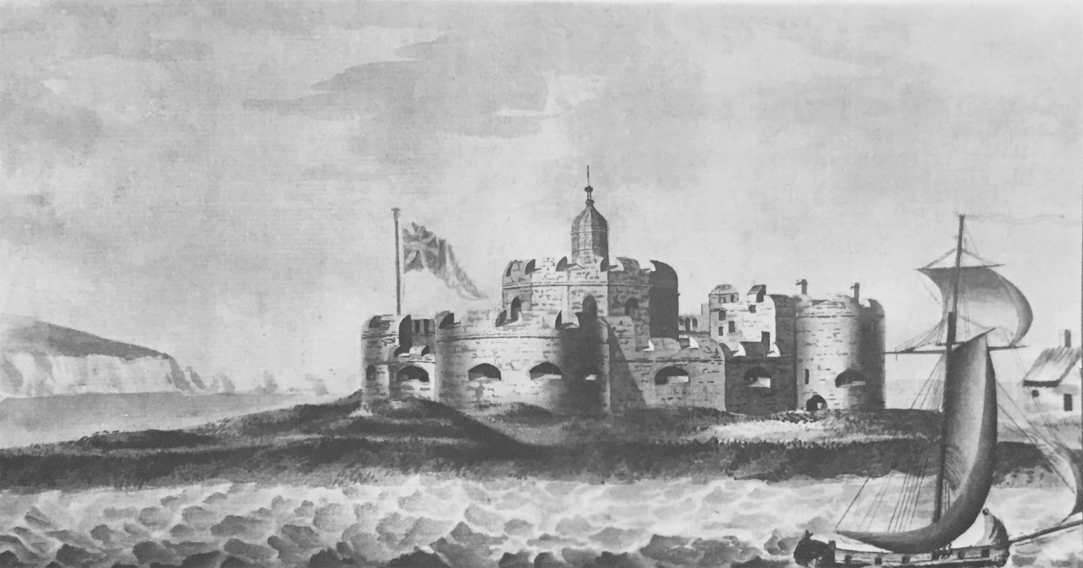 Hurst Castle, 1809